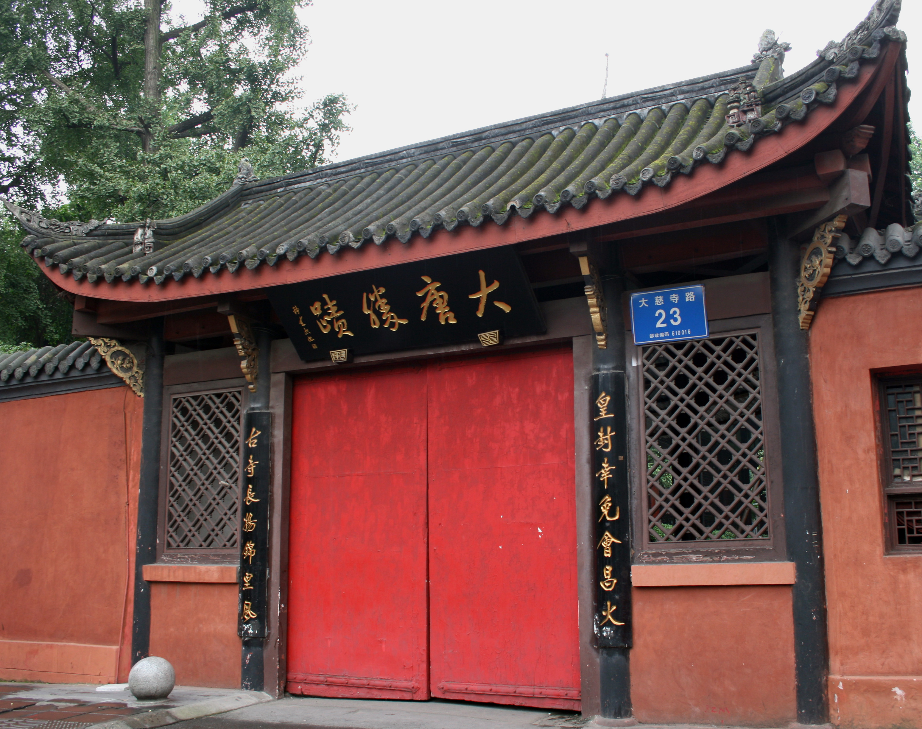 Daci Temple, Chengdu